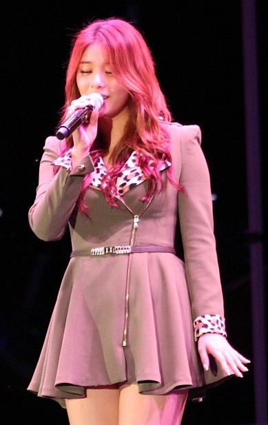 Ailee at Lotte Family Festival, 14 September 2013